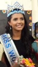 Ivian S. en India